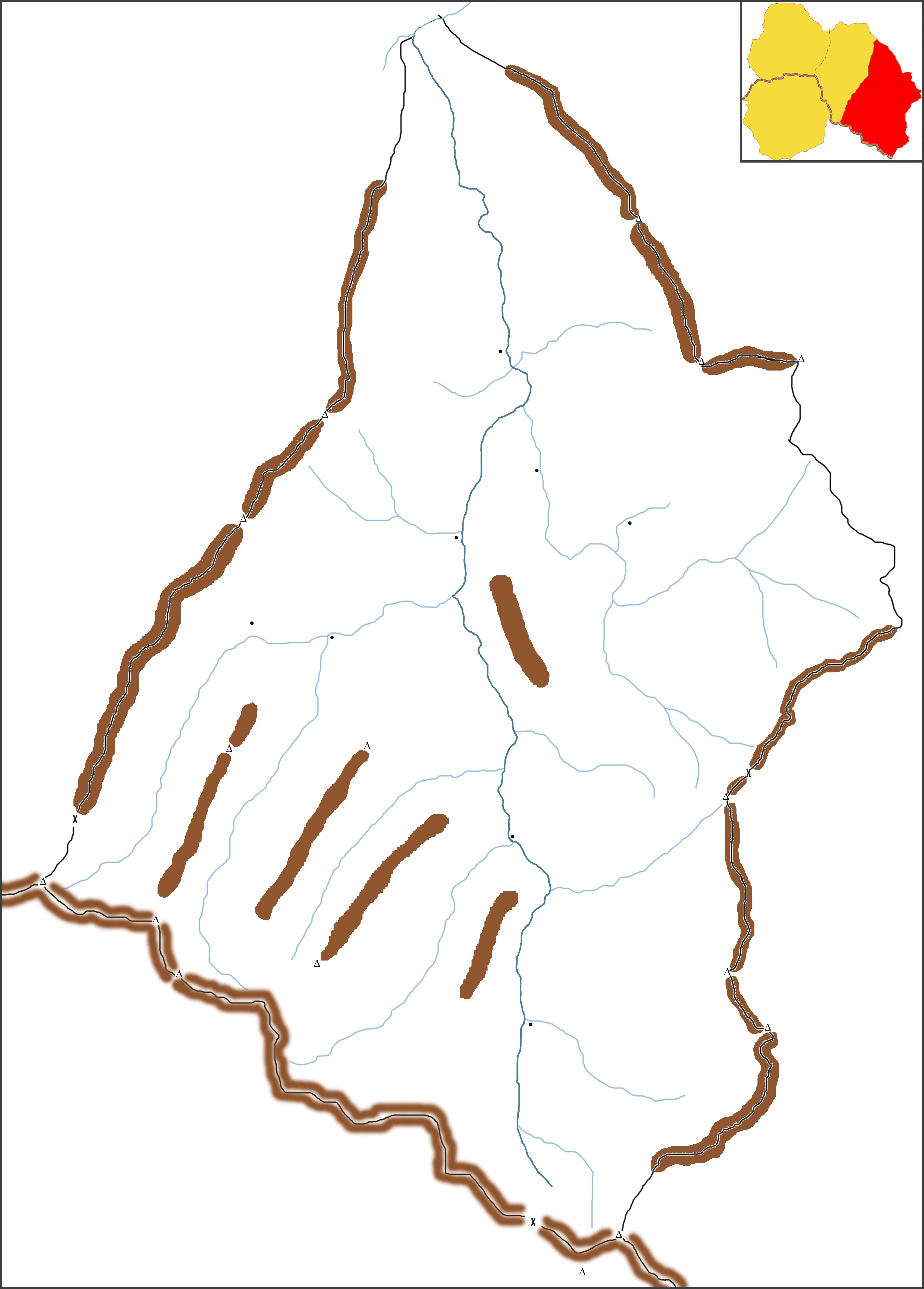 Mighmakhevi Khevsureti